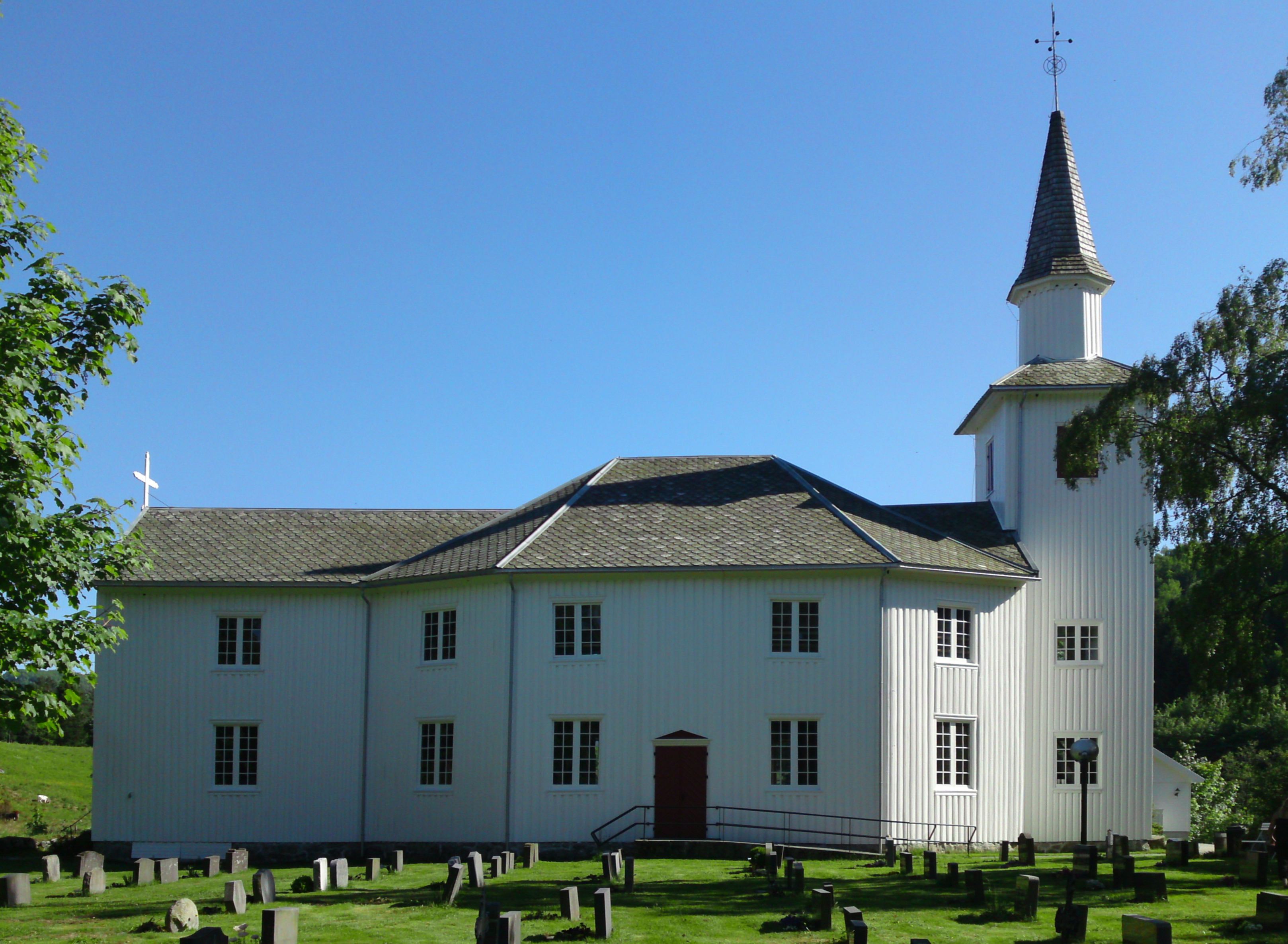 Hægebostad kirke in Vest-Agder, Norway